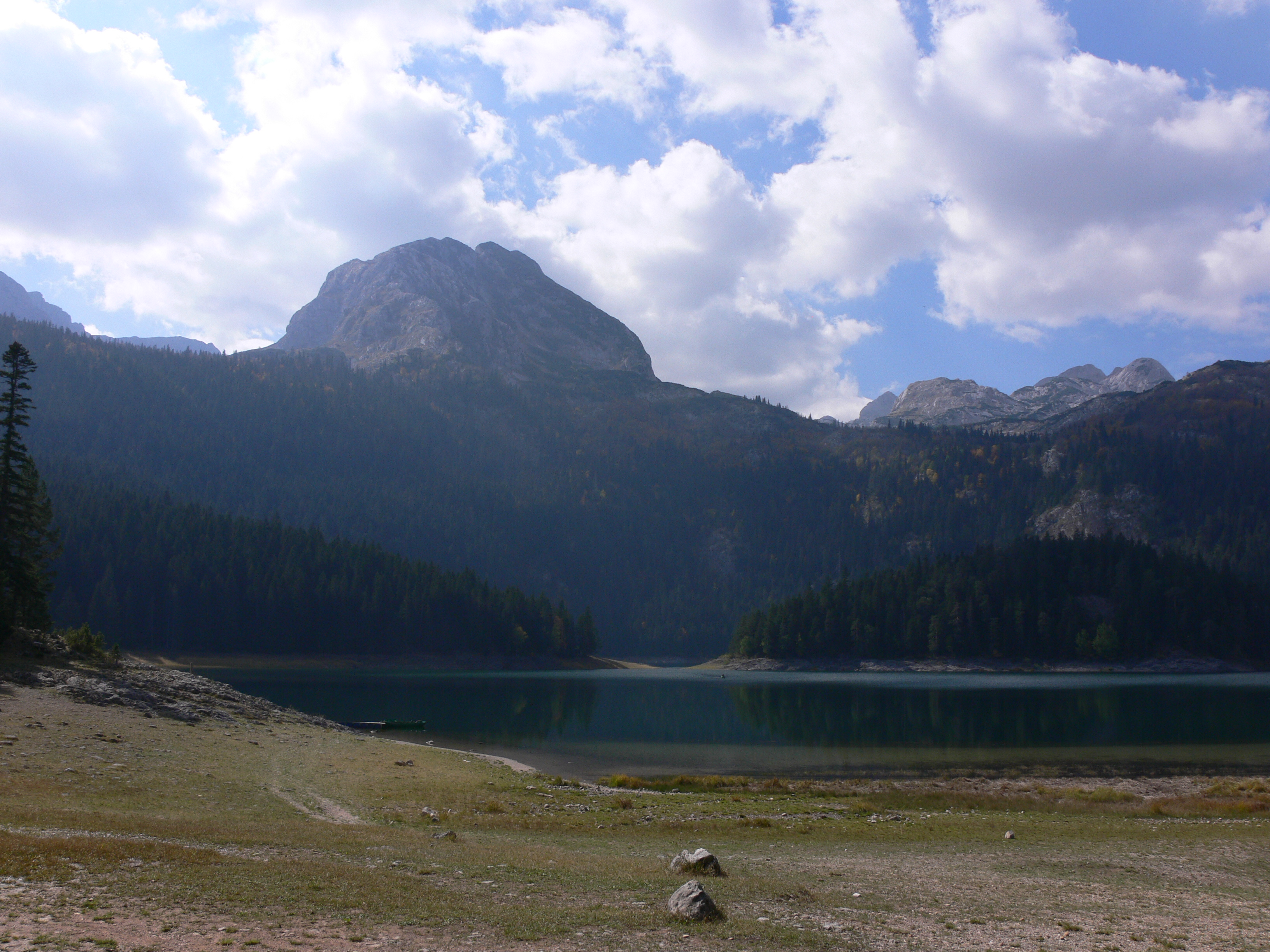 Peak of Meded (2287m) above Crno jezero (Black Lake) in the Durmitor national park, Montenegro.